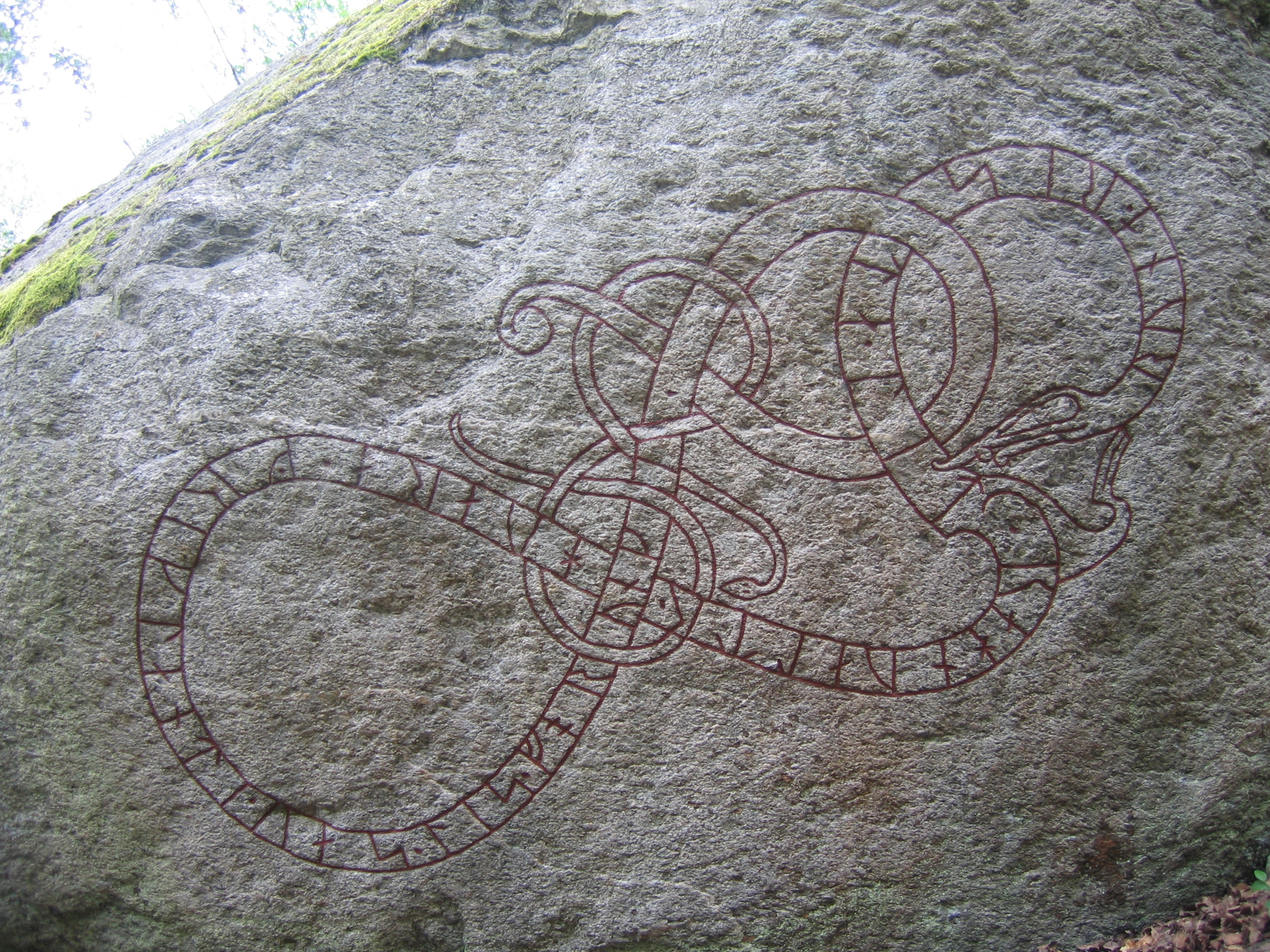 Side B of runestone U 112 at an old riding path near Ed church in Uppland, Sweden.